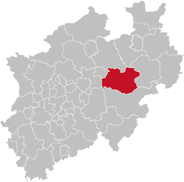 Map of Kreis Soest, a District of Northrhine-Westphalia (NRW), Germany. Red/Grey colors match the color scheme of Germany maps and information boxes in German Wikipedia. Kreis is highlighted in red. Former version of map was based upon [:Image:North rhine w template.png] that displayed some districts in the Cologne/Bonn area not correctly.This new version is based upon template